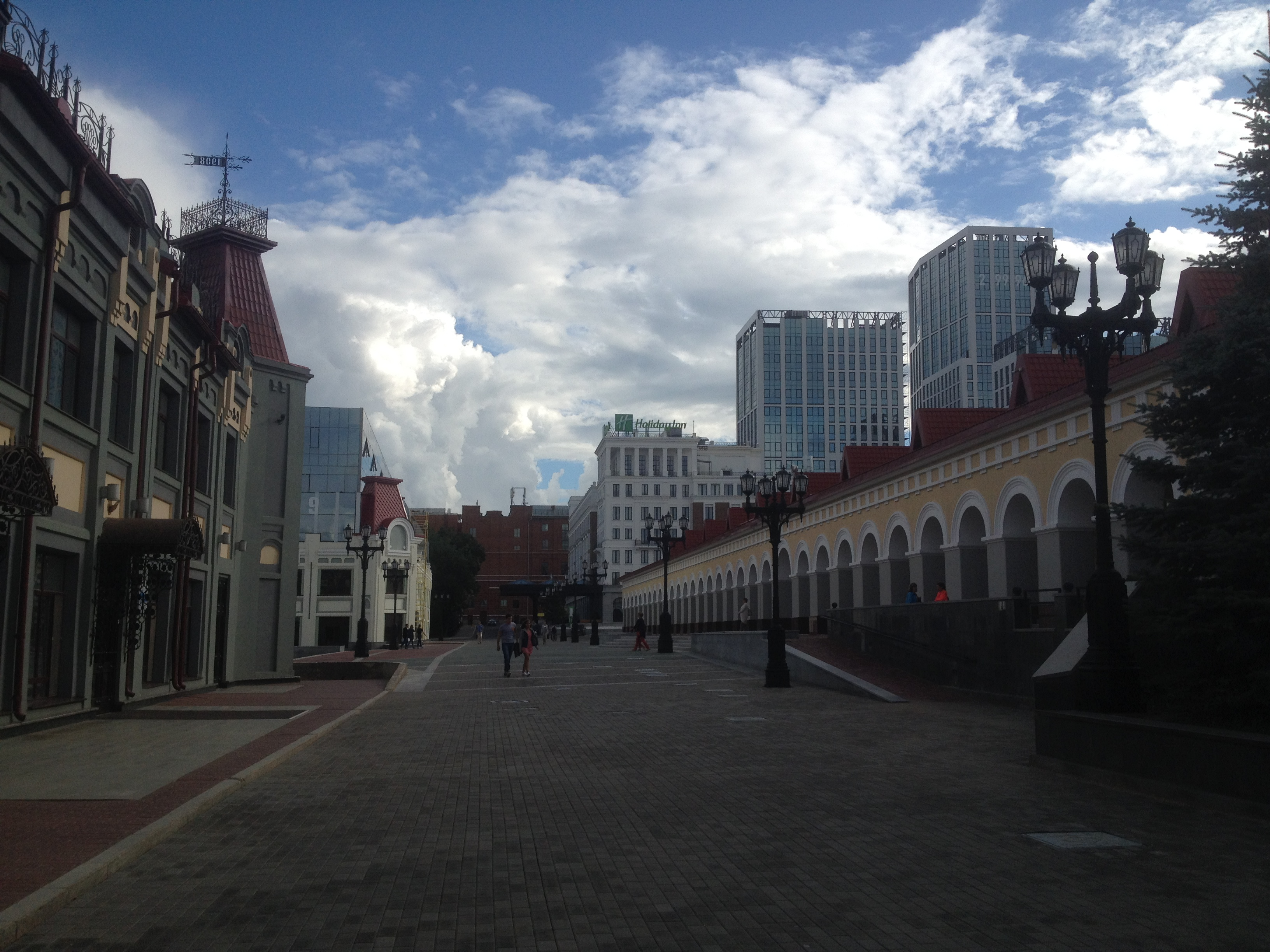 Indoor Market constructed in 2000.